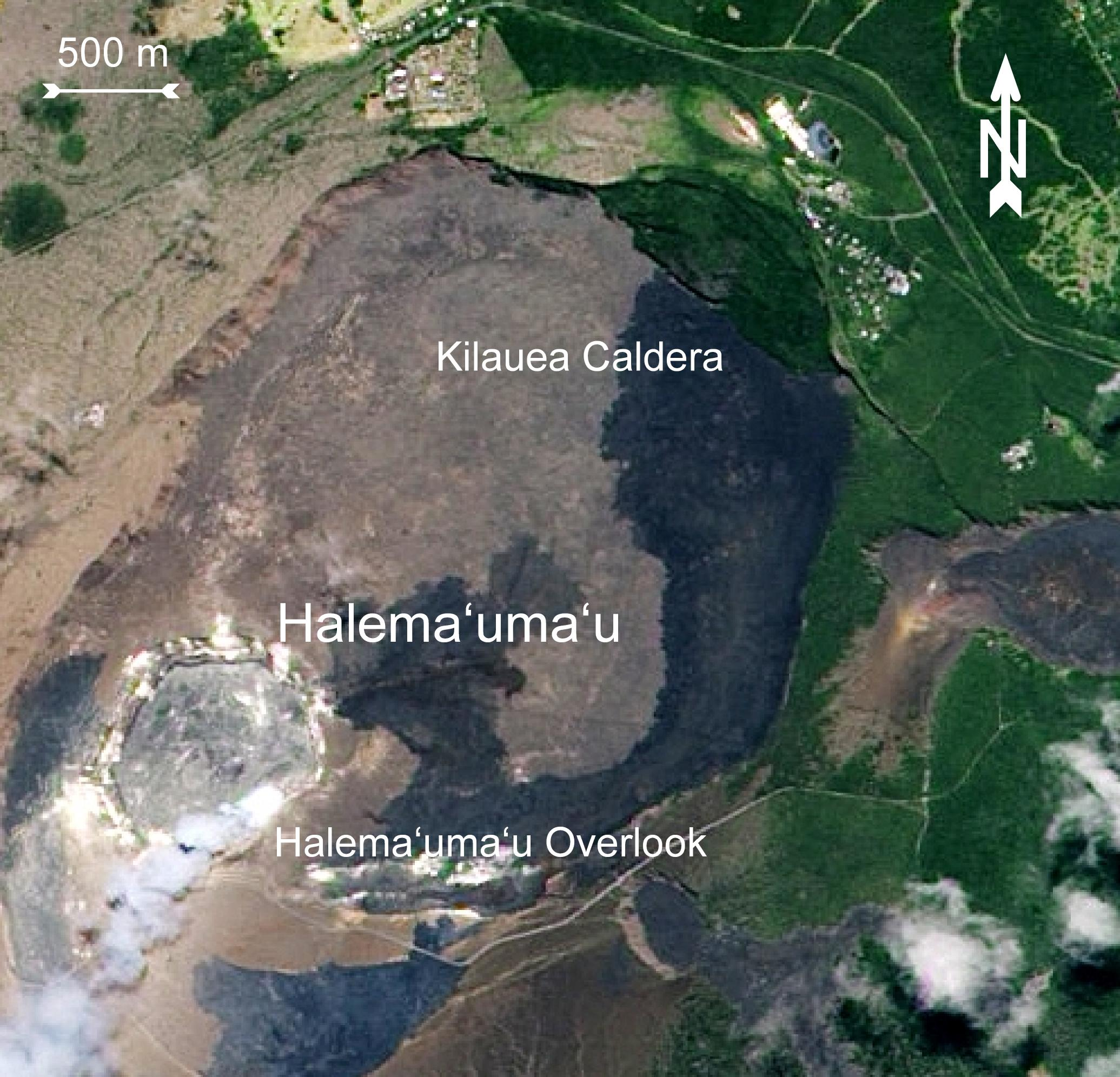 A plume of water vapor, sulfur dioxide, and other volcanic gases continues to escape from Kilauea’s Halema‘uma‘u Crater. Gas emissions from the Halema‘uma‘u Overlook vent began on March 12, 2007. By September of 2007, a lava pond was visible within the vent, and emissions of volcanic gases were almost continuous. Measurements on July 16, 2010, showed the vent emitting 700 tonnes (1,500,000 pounds) of sulfur dioxide per day—compared to an average of 140 tonnes (310,000 pounds) per day from 2003–2007. Credit: NASA NASA’s Advanced Land Imager (ALI) aboard the Earth Observing-1 (EO-1) satellite acquired this natural-color image on July 15, 2010. The gray-blue plume rises from the vent, situated on the floor of Halema‘uma‘u Crater. The crater itself sits within the kilometer-wide Kilauea Caldera, at the summit of Hawaii’s Kilauea Volcano. Old, weathered lava is colored brown, while relatively fresh black lava covers the eastern (lower) and southern (left) edges of the caldera. These lavas erupted in 1974 and 1982, respectively. A dark green ohia forest covers the summit northeast (lower right) of the caldera. To the southwest (upper left), in Kilauea’s rain shadow, the semi-arid landscape is brown.